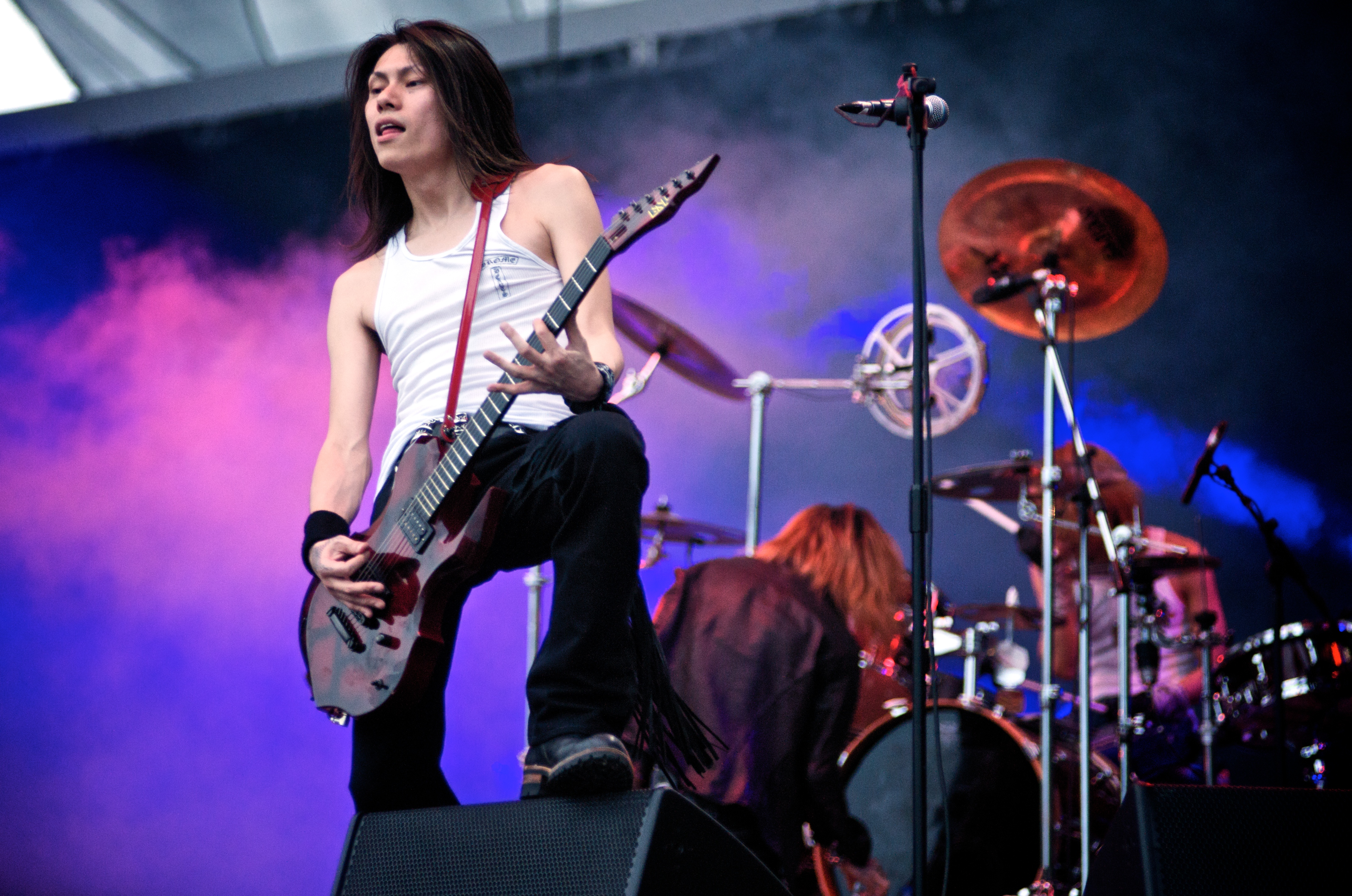 Dir En Grey in Maquinária Festival, occurred in November 8 2009 at São Paulo, Brazil.